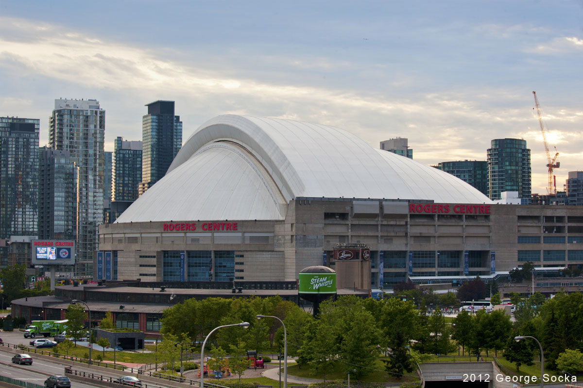 Shot late in the day from the roof of the Harbourfront Parking Garage, with a bit of Photoshop adjustment to bring out the colours.The historic roundhouse in is the forground as is the old railway water tank, now painted with the Steam Whistle Brewing logo.